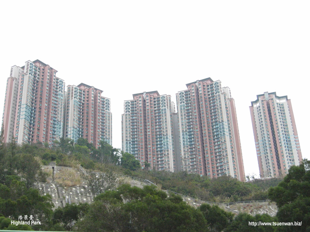 Highland Park, Kwai Chung, New Territories, Hong Kong